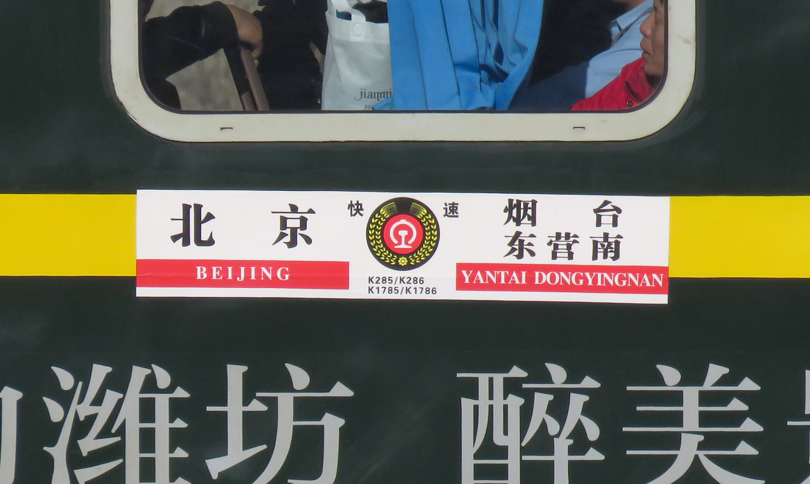 Sponsored by Jingzhi...